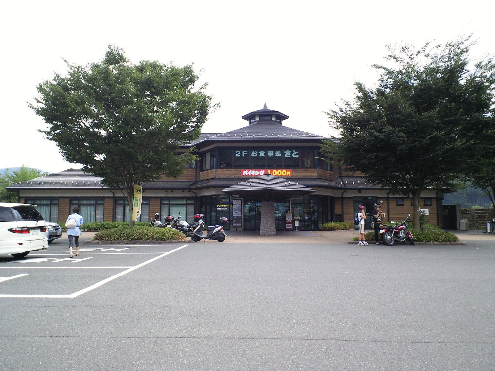 Kutsuki Shinhonjin a Roadside Station, Takashima, Shiga